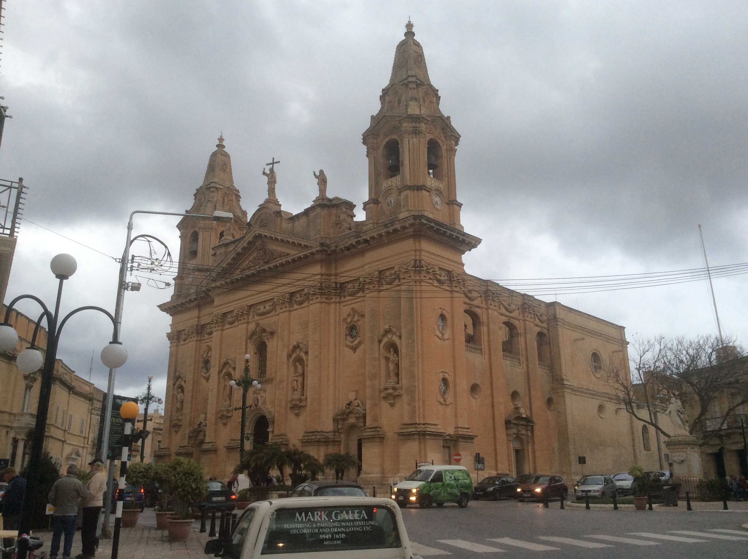 Naxxar Parish Church, Victory Square